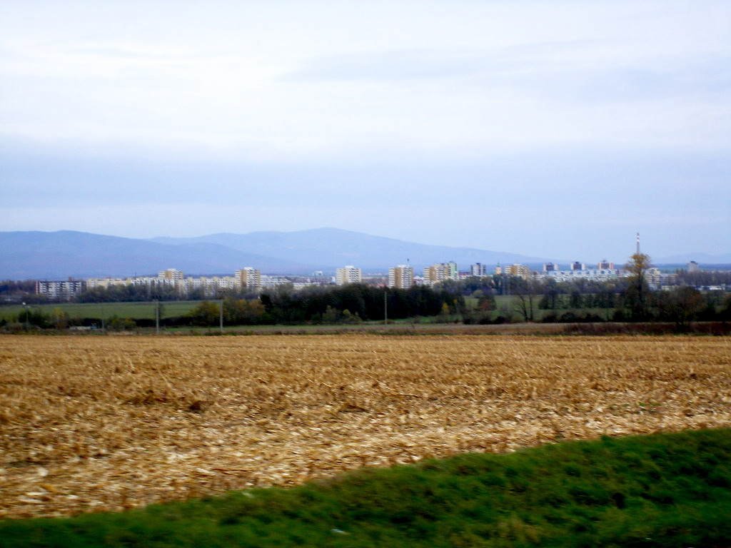 Topoľčany - landscape of the town as seen from east (Solčany)